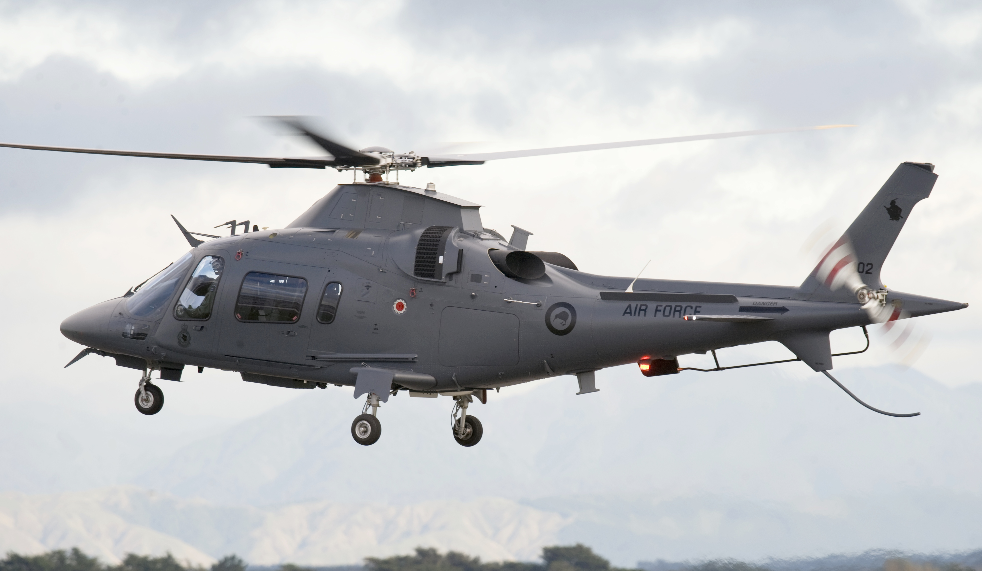 (cropped version) The RNZAFs new training helicopter, the A-109, lifts off from RNZAF Base Ohakea on its first test flight